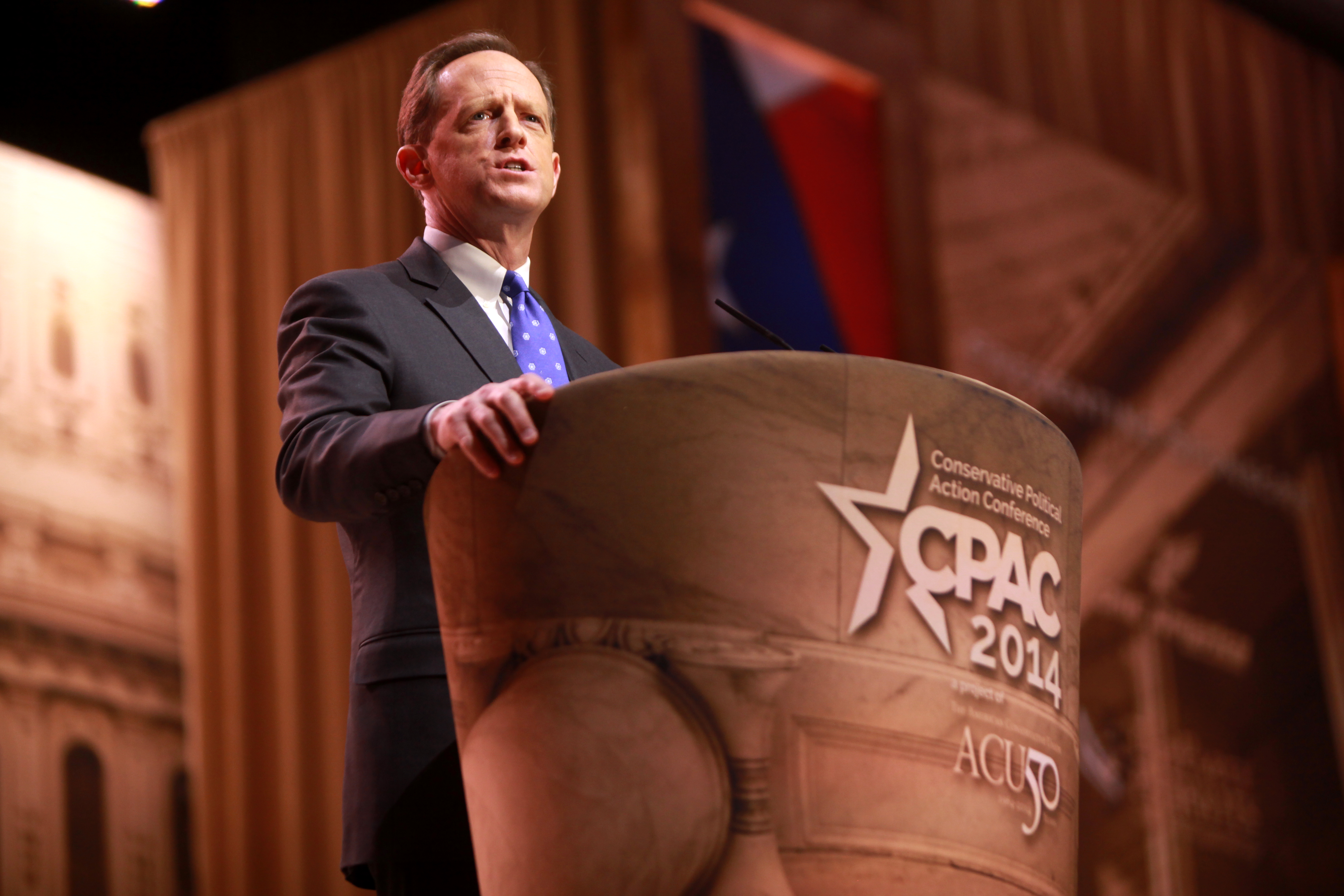 Pat Toomey speaking at CPAC 2014 in Washington, DC.